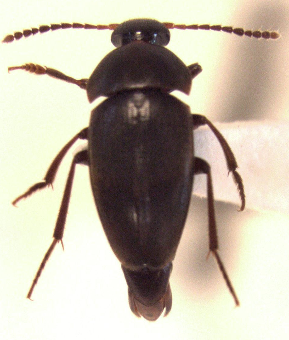 adult male Paracatops antipoda, length about 4.3 mm. Adams I., pitfall trap NP1, tall S. rata/Dracophyllum forest, bare understorey (50°52′2.9″S 166°1′31.2″E / 50.867472°S 166.025333°E). Auckland Islands, New Zealand, 3-15 Feb 2011, G. Elliott, K. Walker.